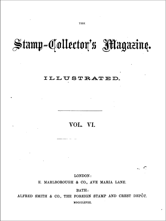 A title page of the Stamp-Collector's Magazine, Vol. VI, London, Sept. 1, 1868.